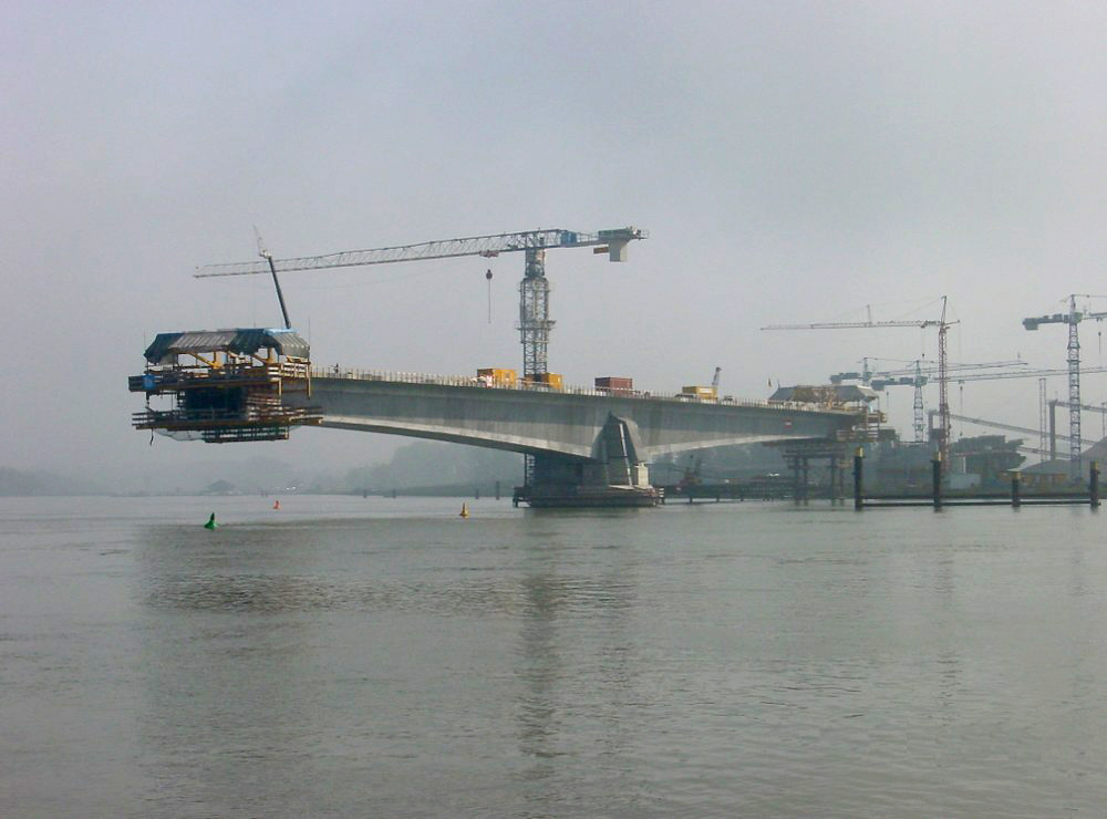 The Pierre Pflimlin bridge being constructed over the river Rhine between Germany and France. Photo of the eastern pylon, taken from the French side of the river (southwest, Eschau), with the cantilever construction almost 2/3rds of the maximum length. Visible behind the bridge is the approach viaduct and a cement works on the German side (Altenheim).